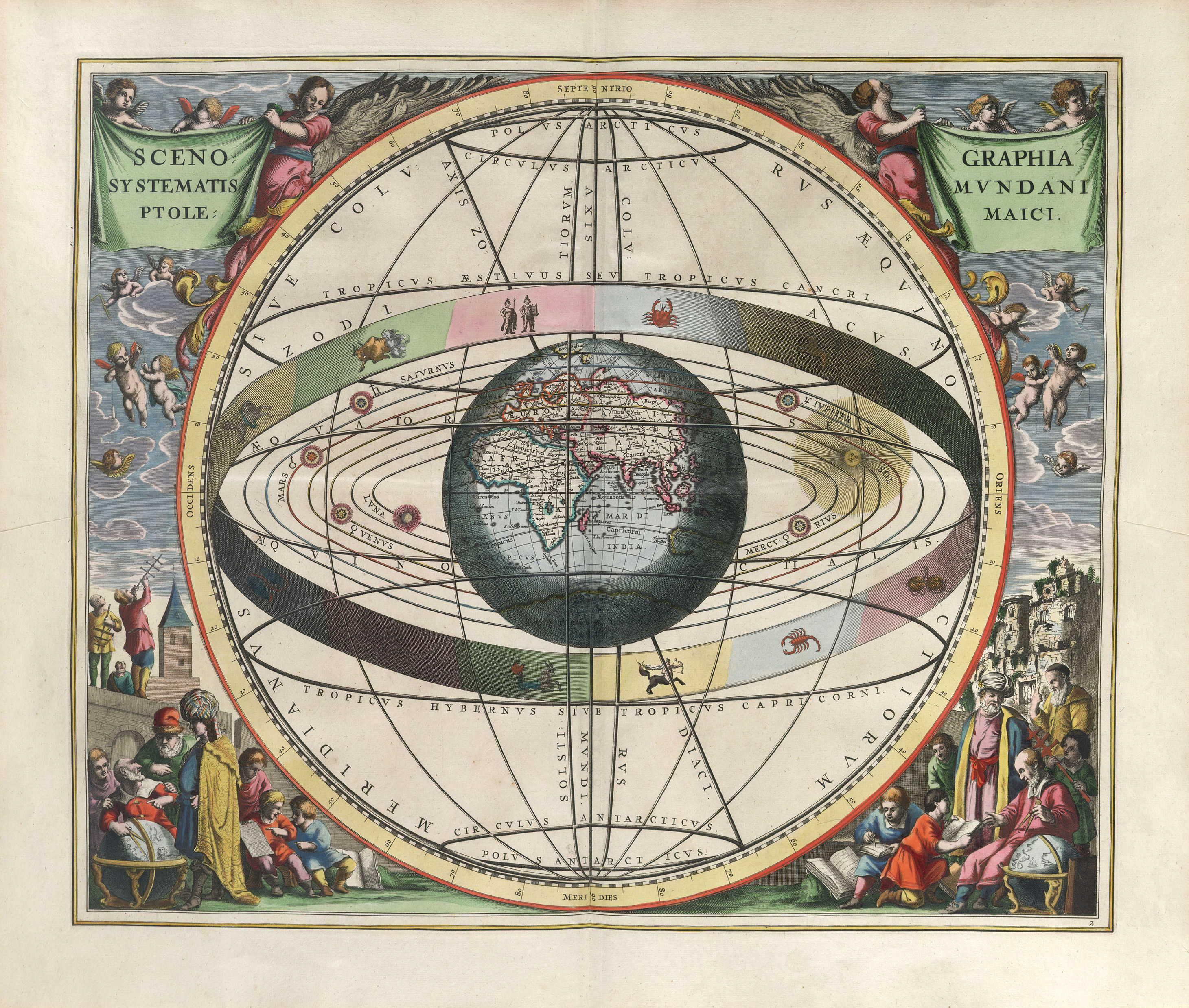 Andreas Cellarius: Harmonia macrocosmica seu atlas universalis et novus, totius universi creati cosmographiam generalem, et novam exhibens. Plate 2. SCENOGRAPHIA SYSTEMATIS MVNDANI PTOLEMAICI - Scenography of the Ptolemaic cosmography.